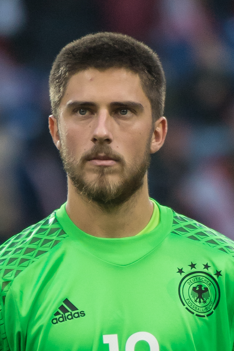 European Under-21 Championship 2017 Qualifying Round, Austria vs Germany, 11/10/2016, St. Polten